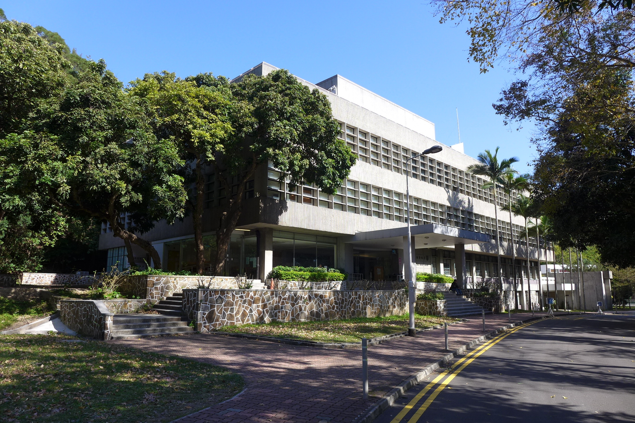 CUHK Elizabeth Luce Moore Library